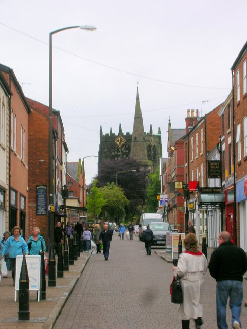 Church Street, Ormskirk